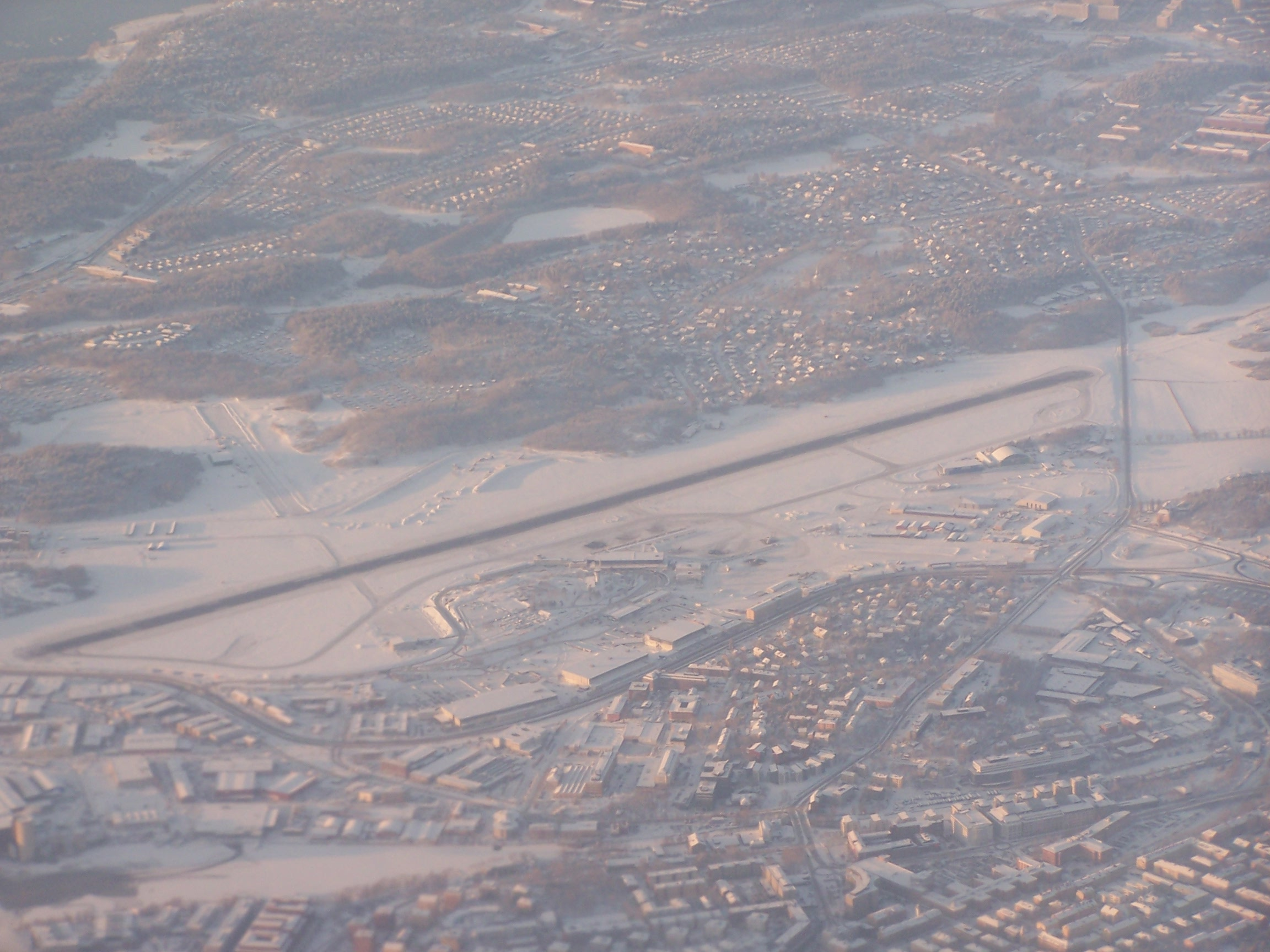 Stockholm-Bromma Airport, Stockholm, Sweden